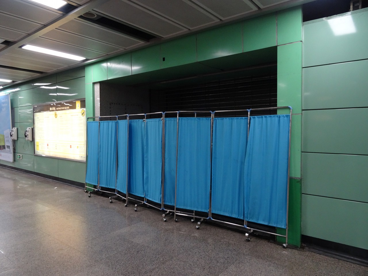 越秀公園站通往原流花廣交會的通道（而家已經封左）